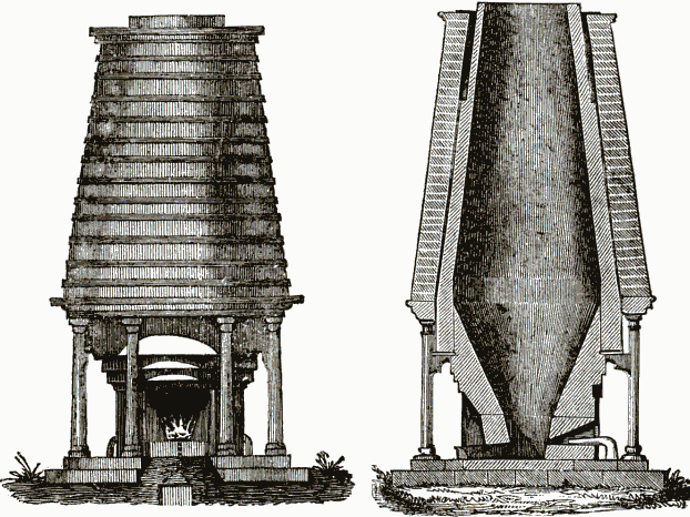 Coke Blast furnaces in operation in 1849 at Hayange, Moselle, France. The stack is supported on a lintel.